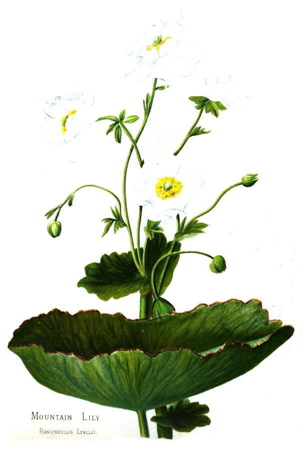 ranunculus lyallii